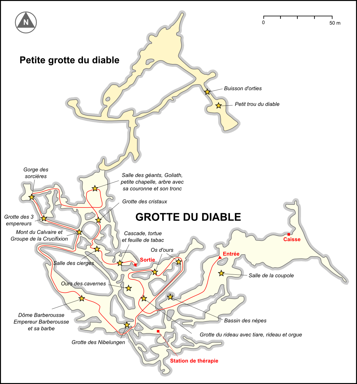 Map of the Devil's grotto at Pottenstein